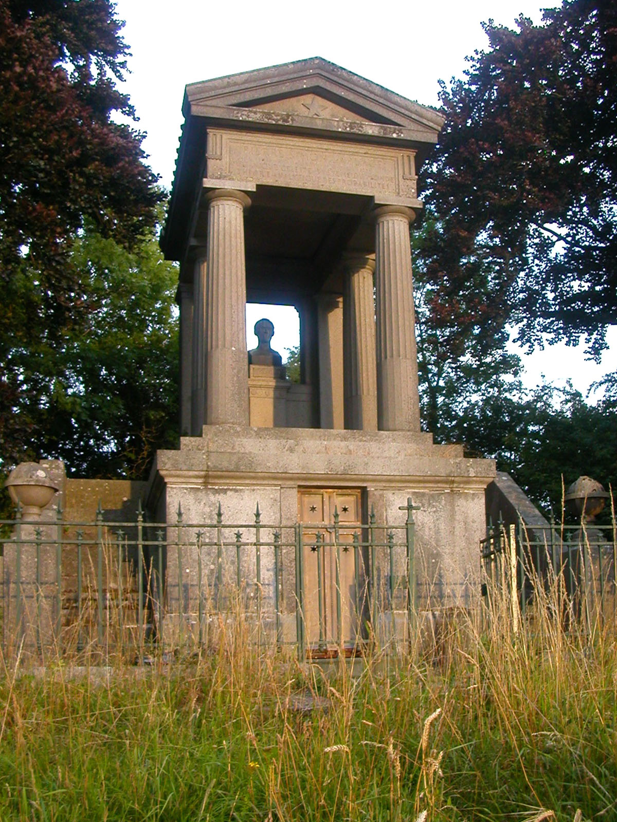 Wikipedia describes him as 'one of the greatest scientists of all time, sometimes referred to as the French Newton'. The names of his major works, Mechanique Celeste, Exposition du Systeme du Monde and Theorie Analytique des Probabilités are inscribed on the frieze below the pediment.